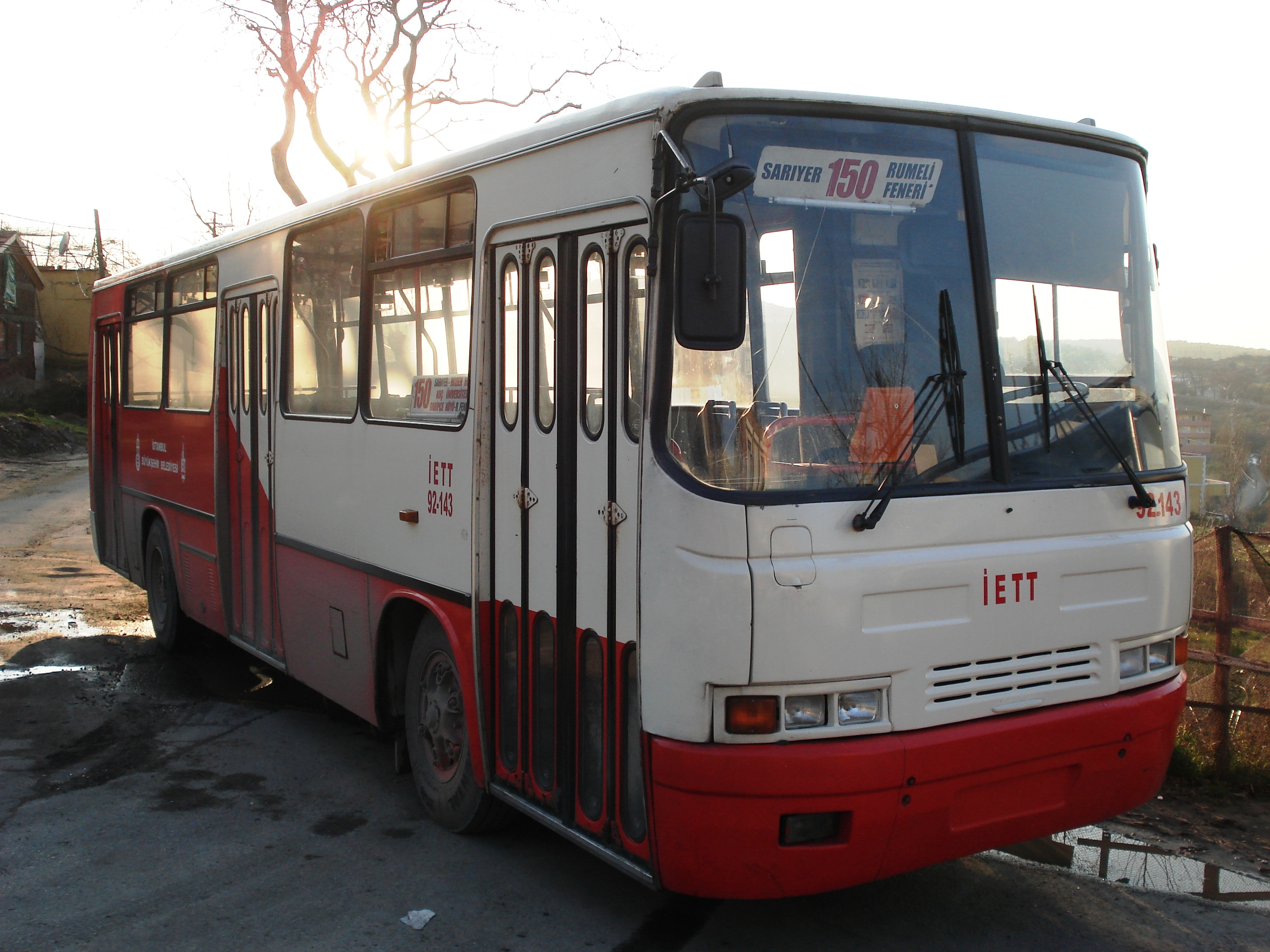 Ikarus 260. City bus in Istanbul. In service since 1992. Operator: iett.